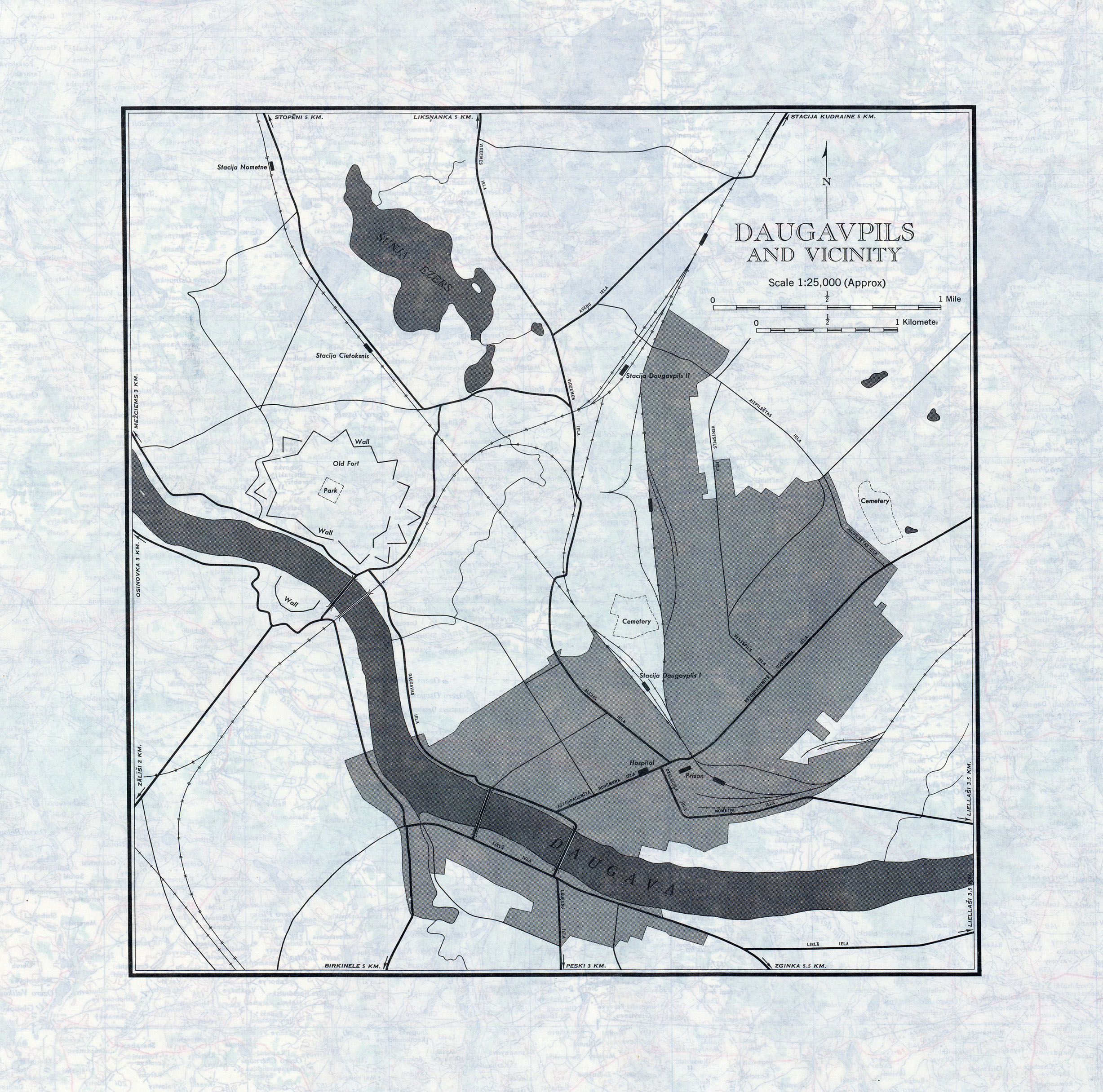 List from Eastern Europe AMS Topographic Maps. Series N501, U.S. Army Map Service, 1954